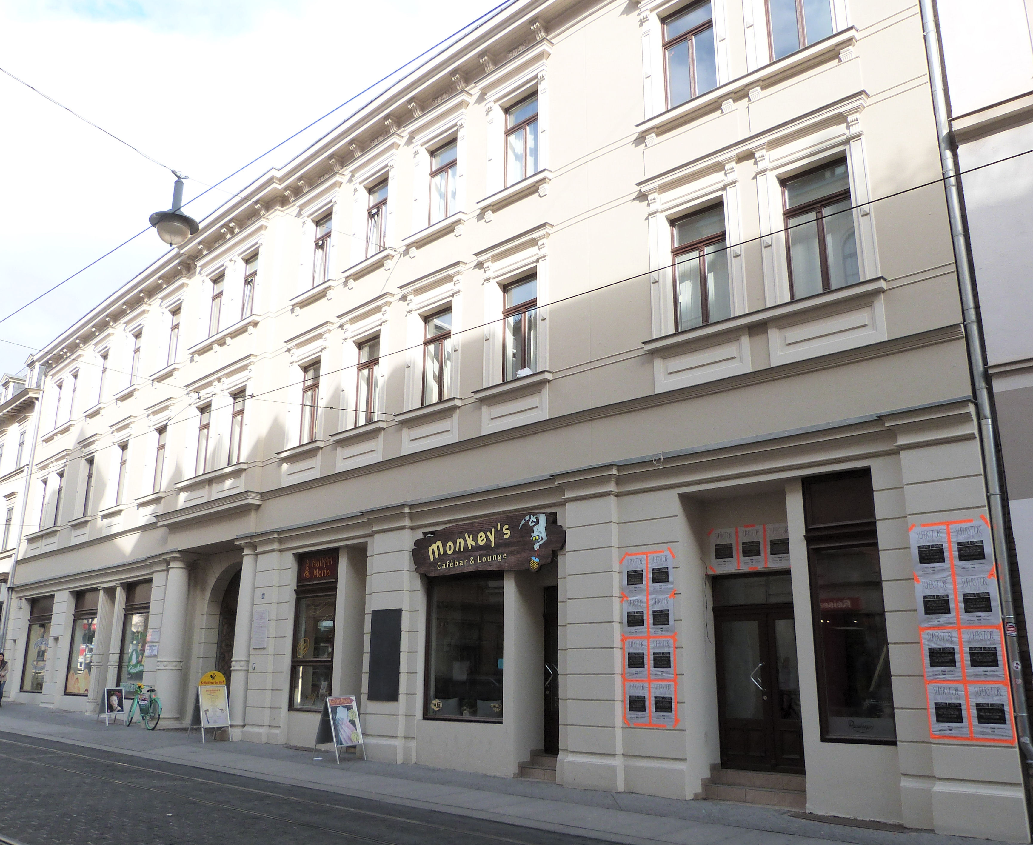 House No. 36, Grosse Ulrichstrasse, Halle (Saale), from 1795 to 1810 residential house of Johann Christian Reil